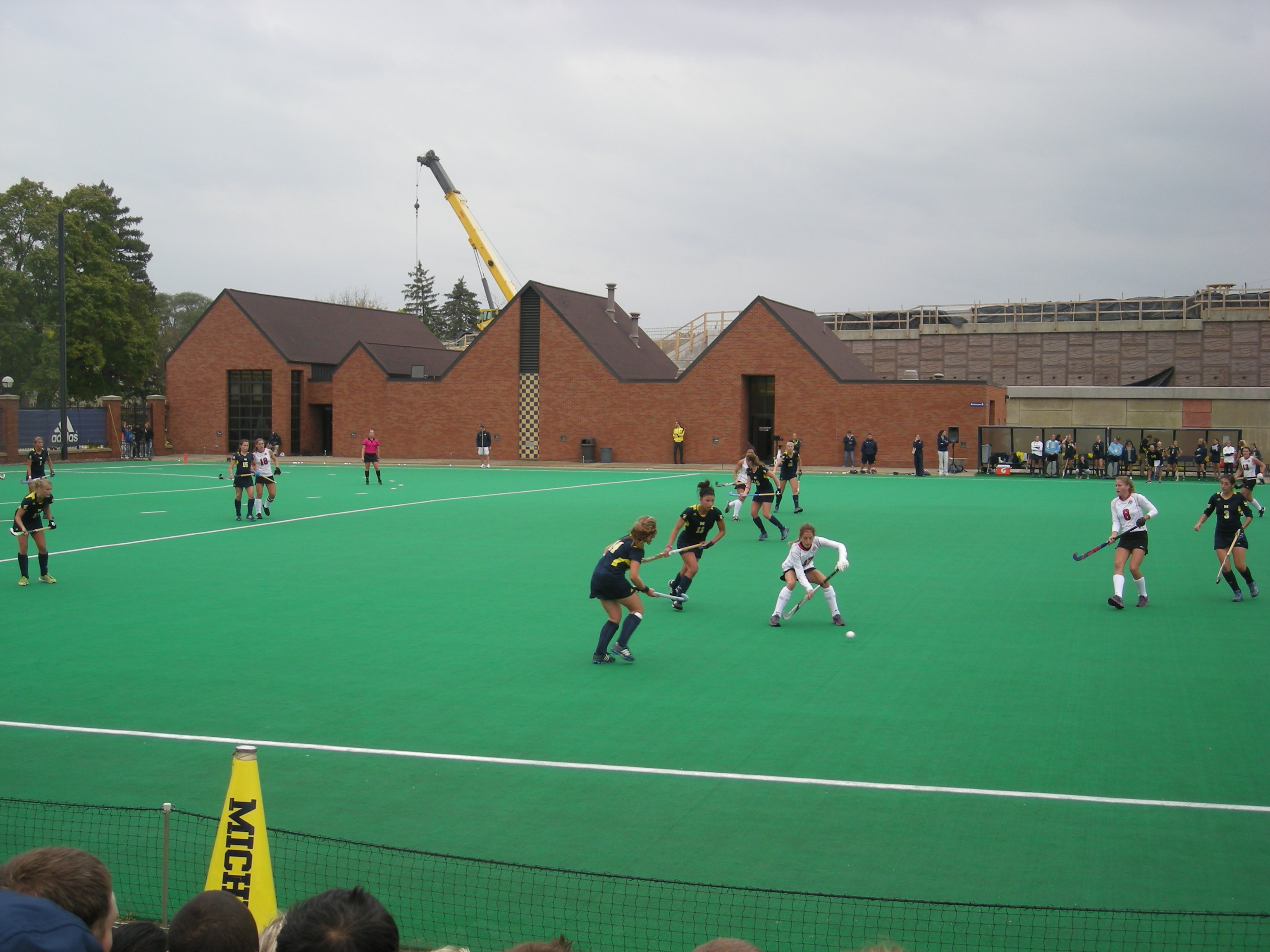 In-game action during the Ohio State Buckeyes vs. Michigan Wolverines field hockey game at Ocker Field in Ann Arbor, Michigan (United States). Michigan won 3–1.